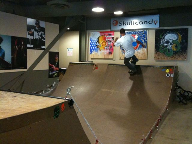 Skullcandy's Park City, UT office features a mini-ramp for employees